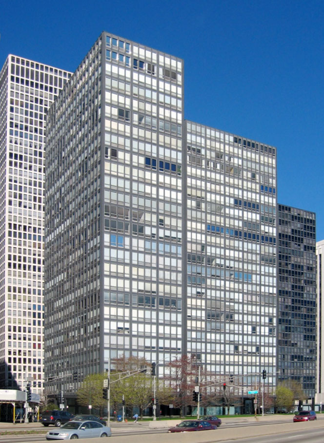 860–880 Lake Shore Drive, Chicago, Illinois. Designed by Ludwig Mies van der Rohe, built 1949–1951.Photographed looking WNW.